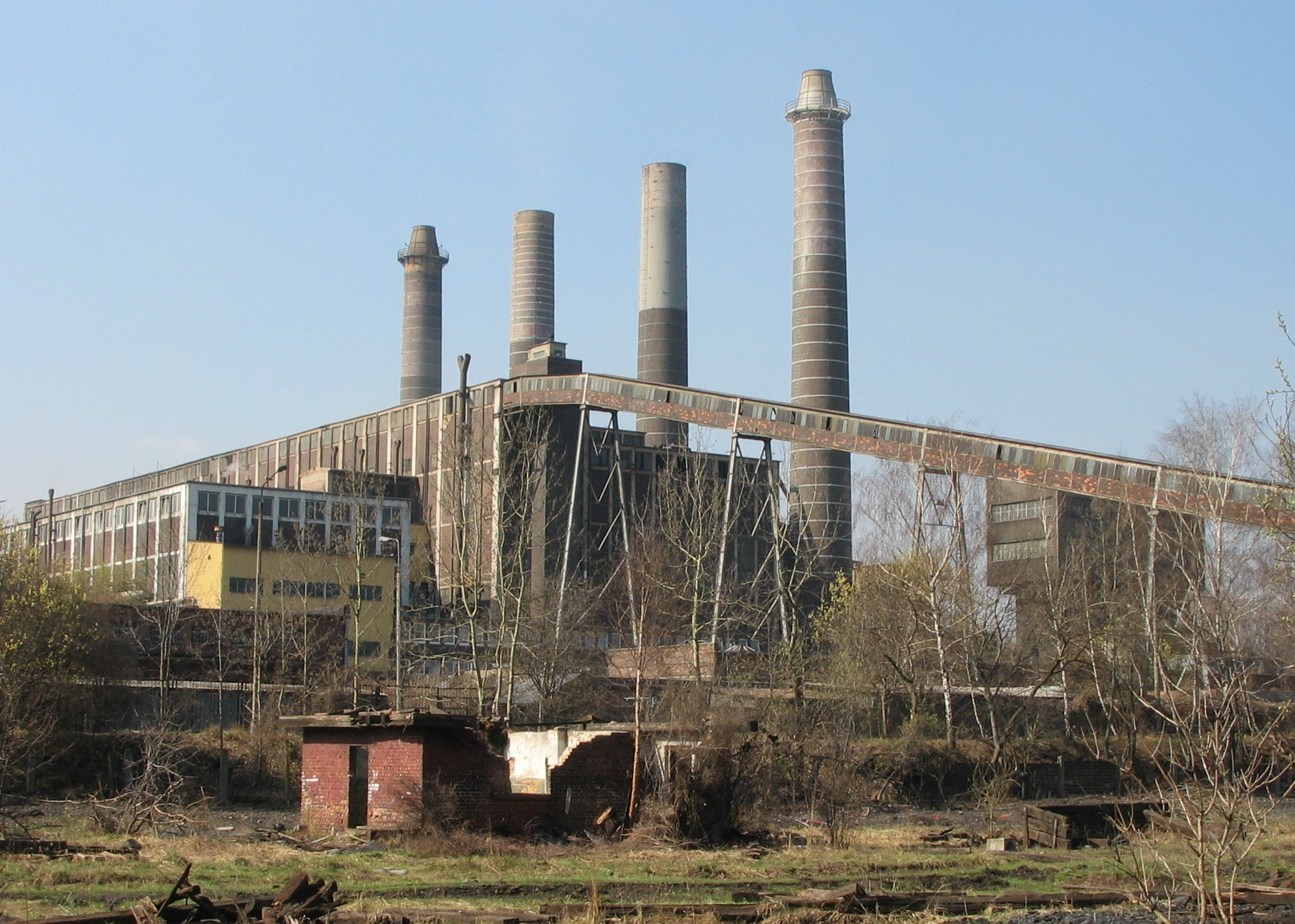 Heat and Power Plant in Bytom Miechowice